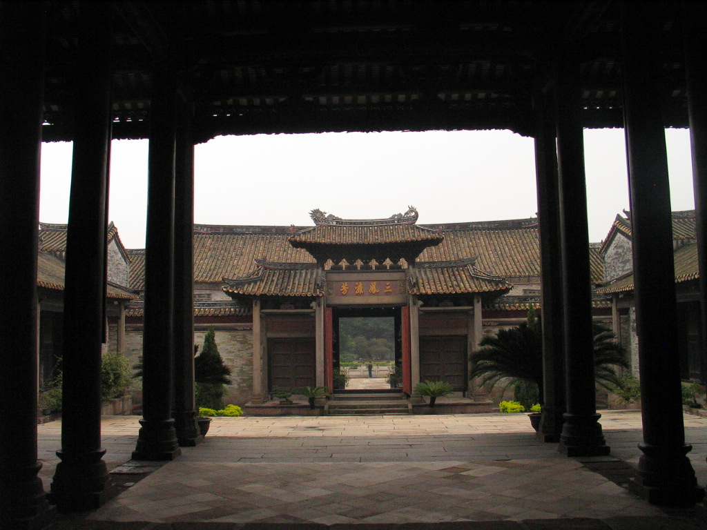 更多haier7917的中国古建照片/ more photos of ancient chinese architecture by haier7917：